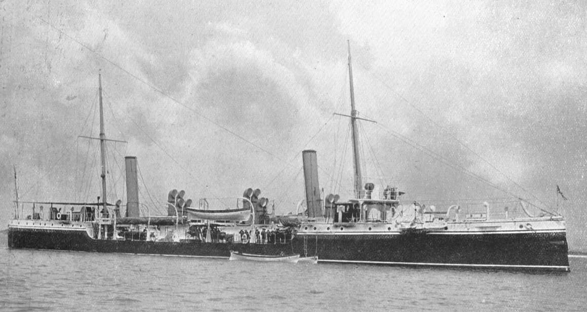 Photograph of British torpedo gunboat HMS Halcyon.